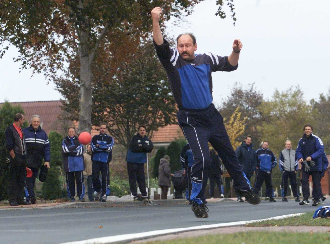 Street bowler in action